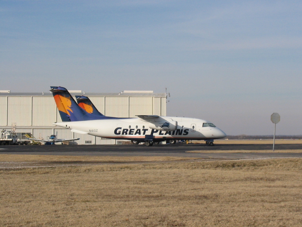 The now defunct Great Plains Airlines Dornier 328 (N410Z)